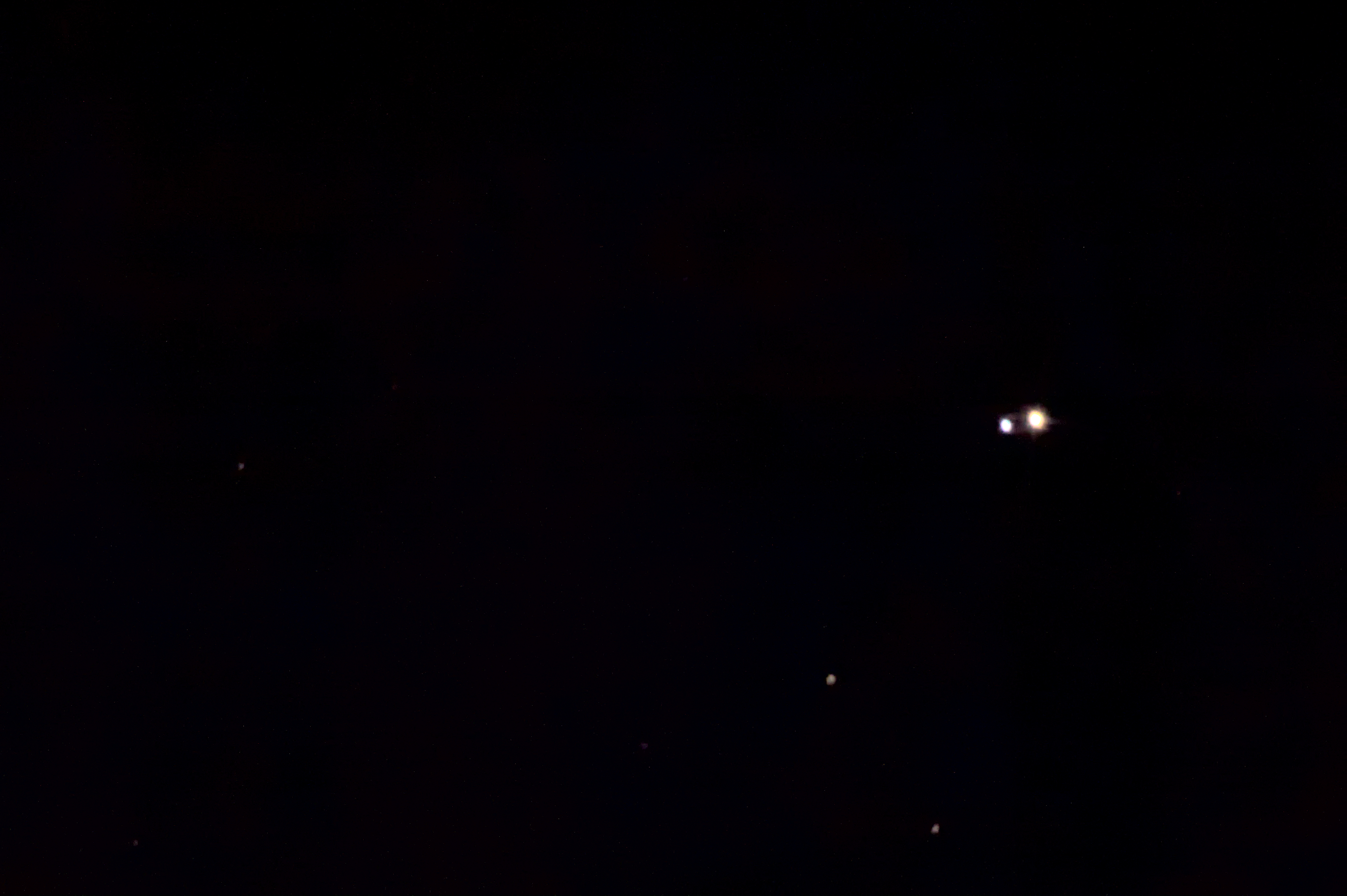 The double star Albireo in Cygnus constellation.